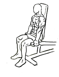 an exercise of triceps